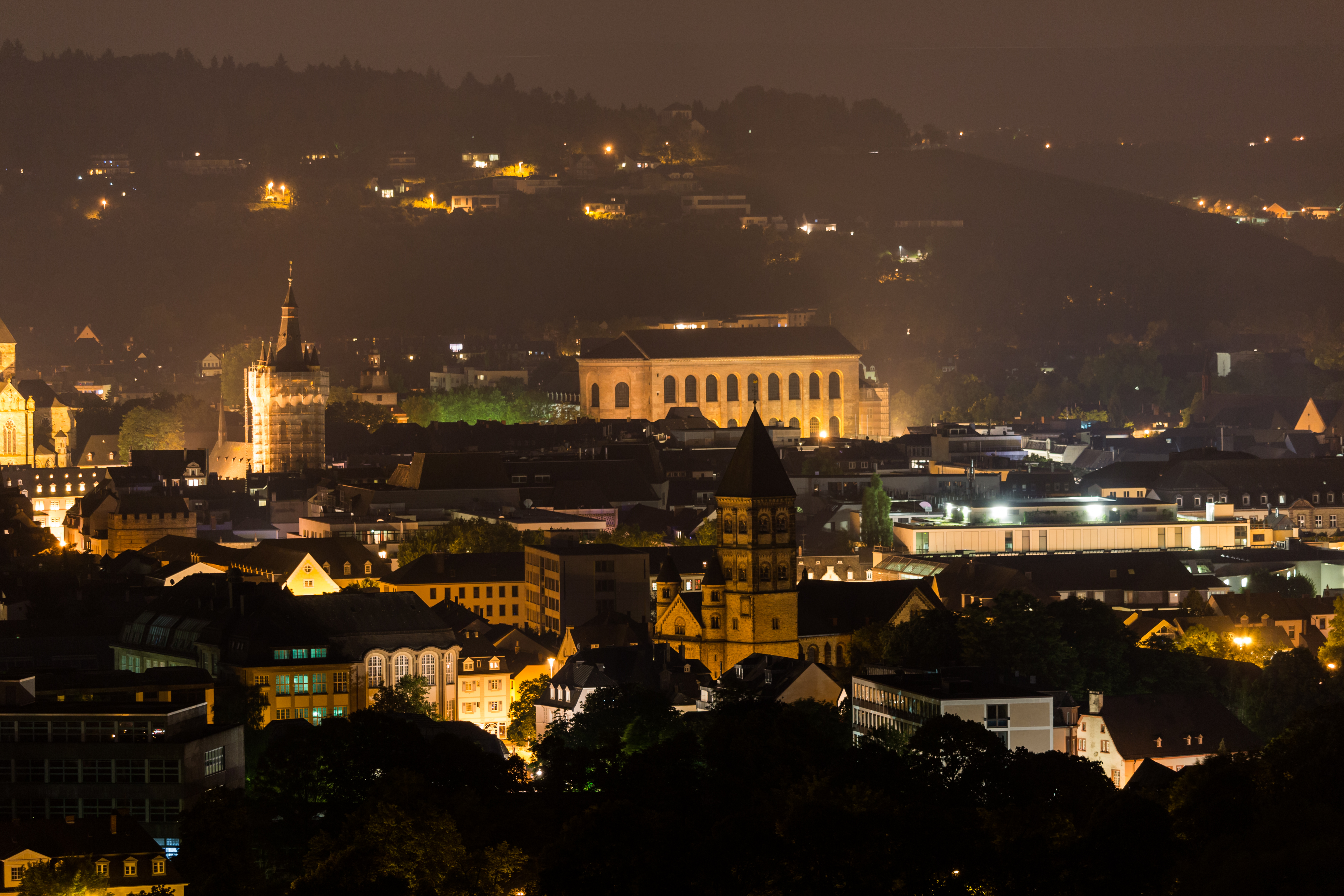 Trier at night, Rhineland-Palatinate, Germany This is a photograph of an architectural monument.It is on the list of cultural monuments of Trier